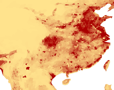 Detail of File:Population density with key.png showing Sichuan Basin and China